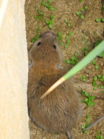 Acomys russatus, Golden Spiny Mouse, קוצן זהוב